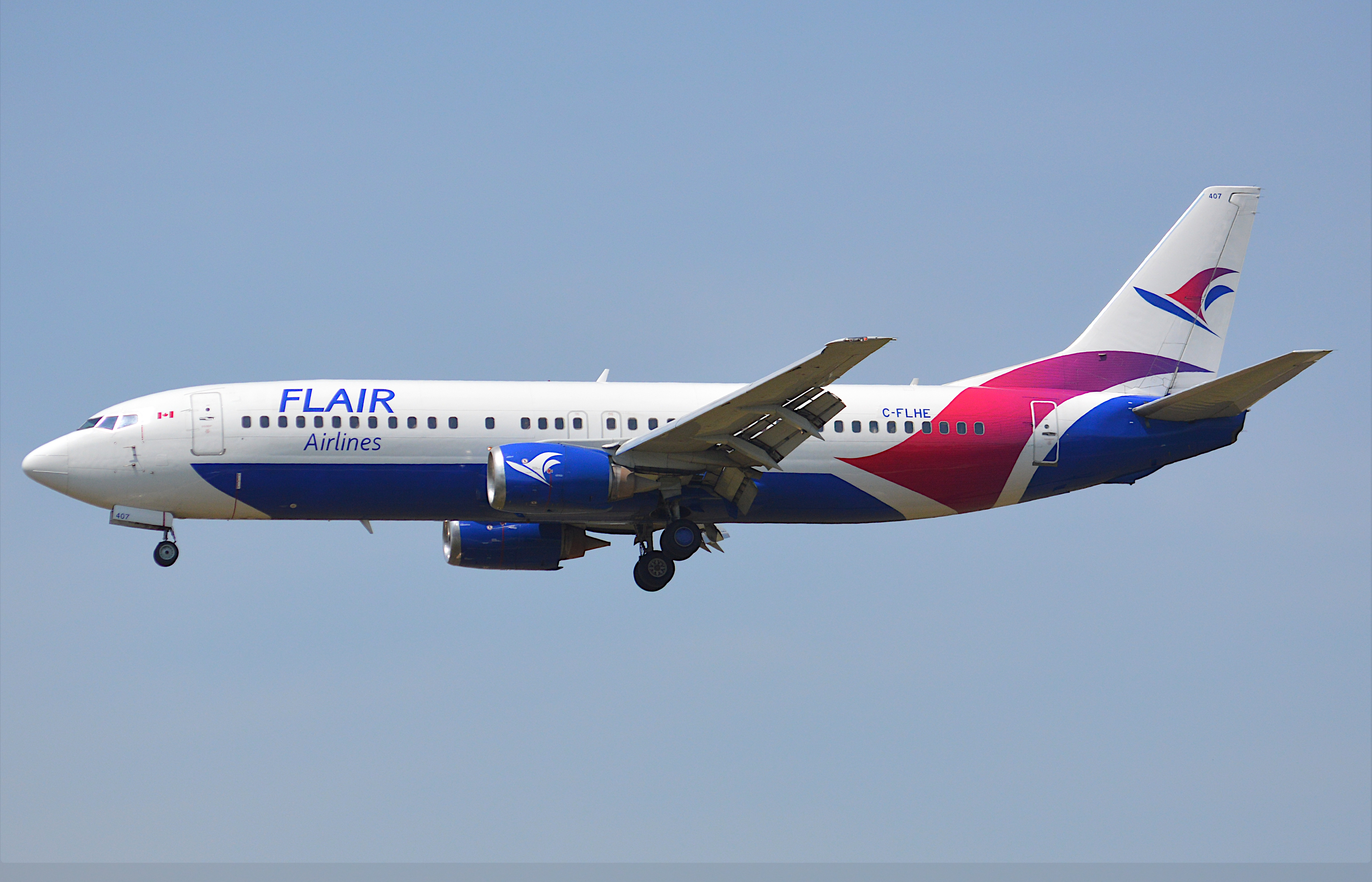 Flair Airlines Boeing 737-400 C-FLHE landing on runway 18, Winnipeg James Armstrong Richardson International Airport, July 7, 2019.